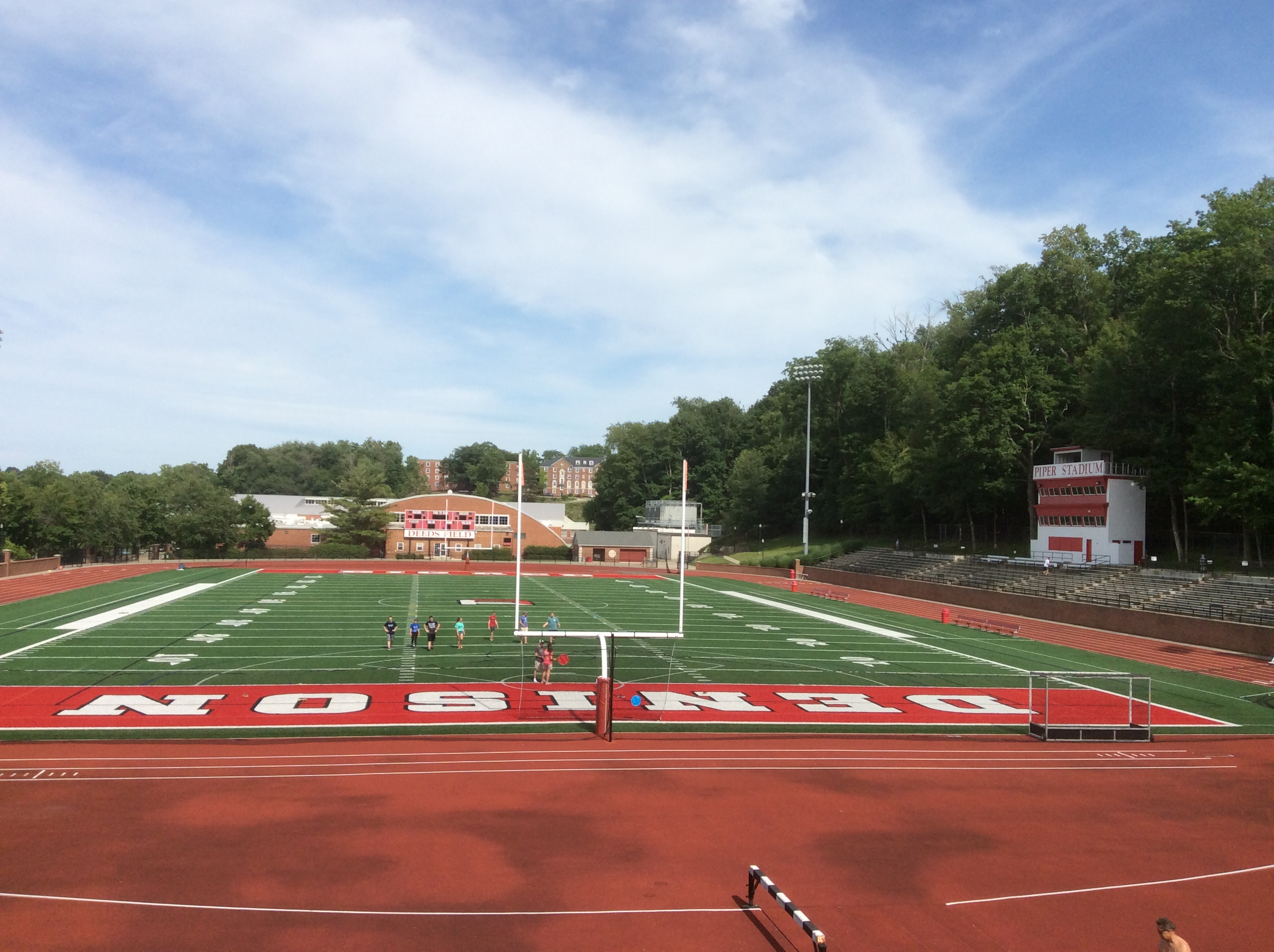 Deeds Field & Piper Stadium, Denison University, Granville, Ohio, USA